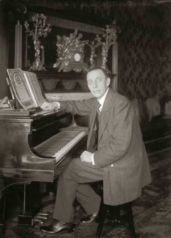 Sergei Rachmaninoff, photo portrait, seated at Steinway grand piano.[1][2]